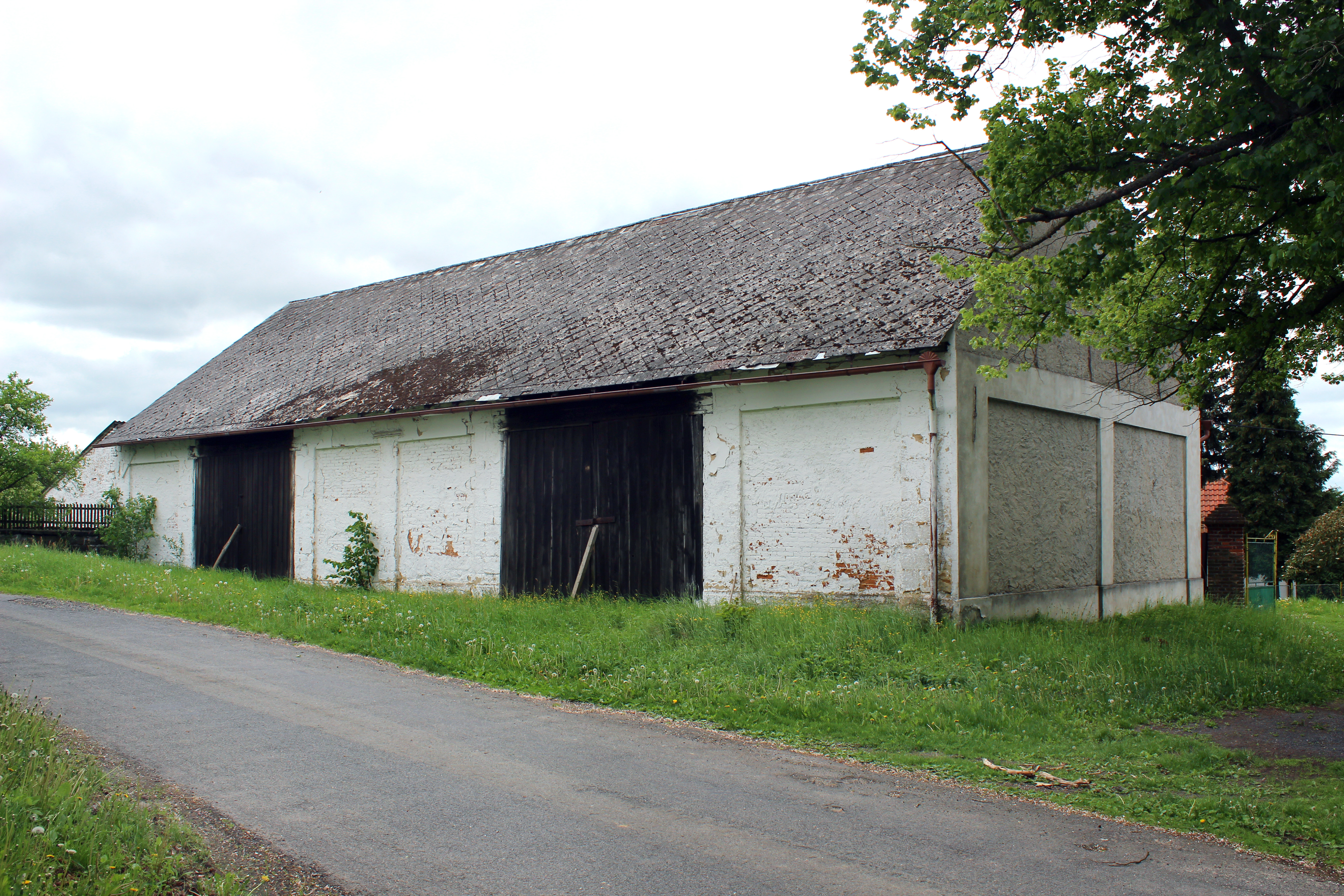 A barn in Tajná, part of Stránka municipality, Czech Republic